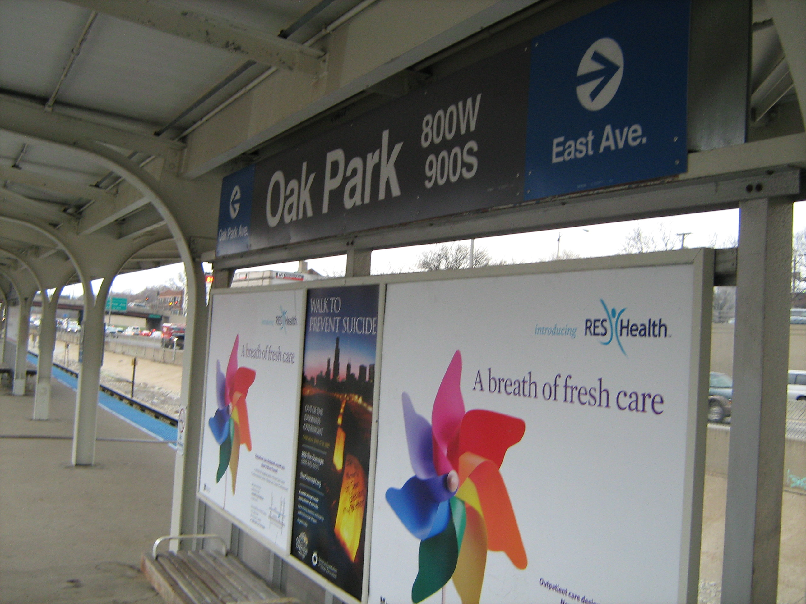 Oak Park Ave & the Eisenhower Expressway (800 W/950 S) 950 S. Oak Park Ave. Oak Park, IL 60304 Blue Line (Congress Branch)